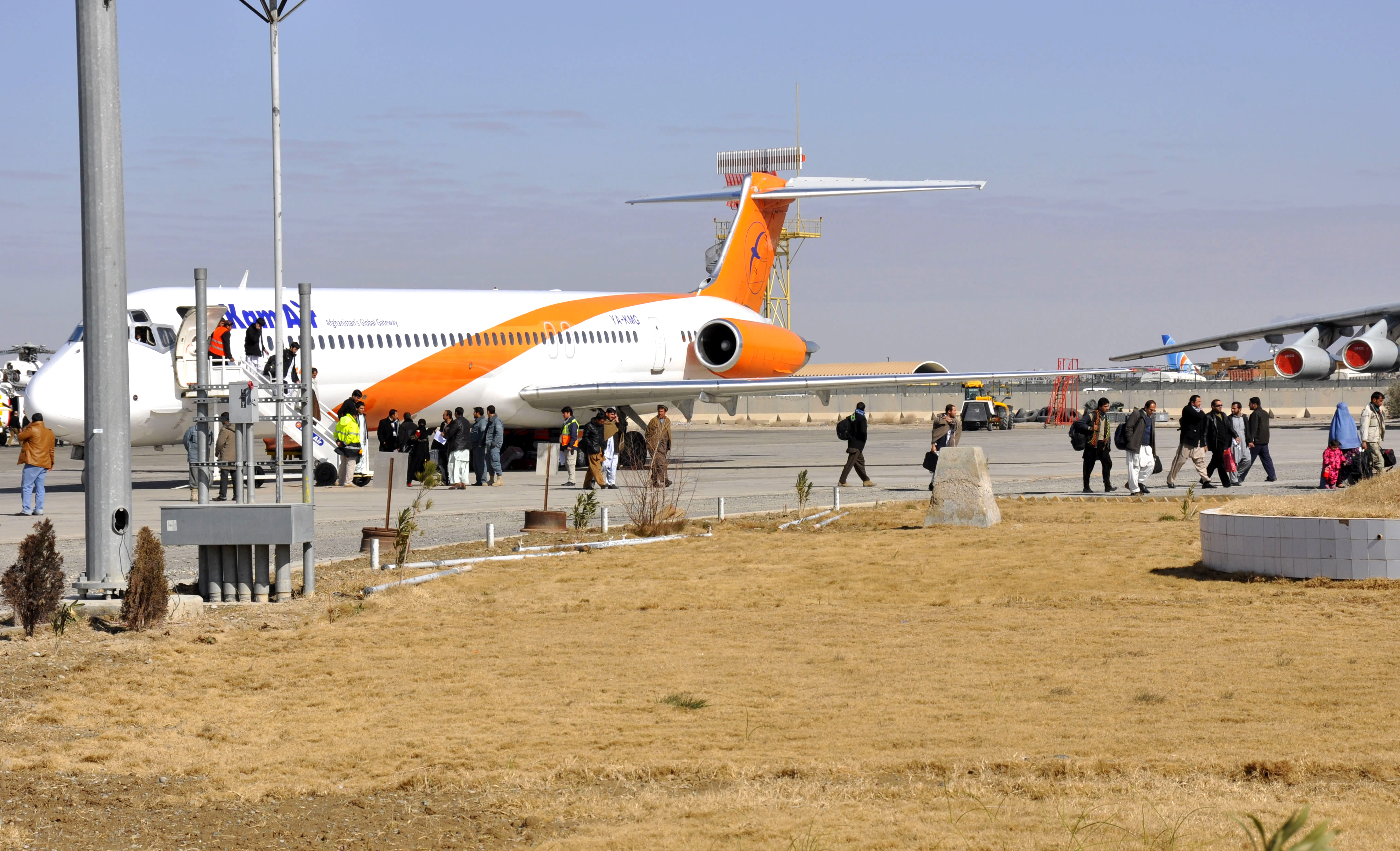 Passengers arriving in a Kam Air at Kandahar International Airport)